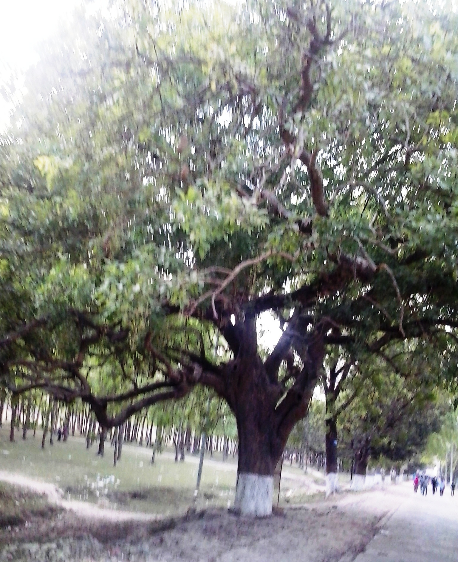 Nigella tree, carmichel college, Rangpur